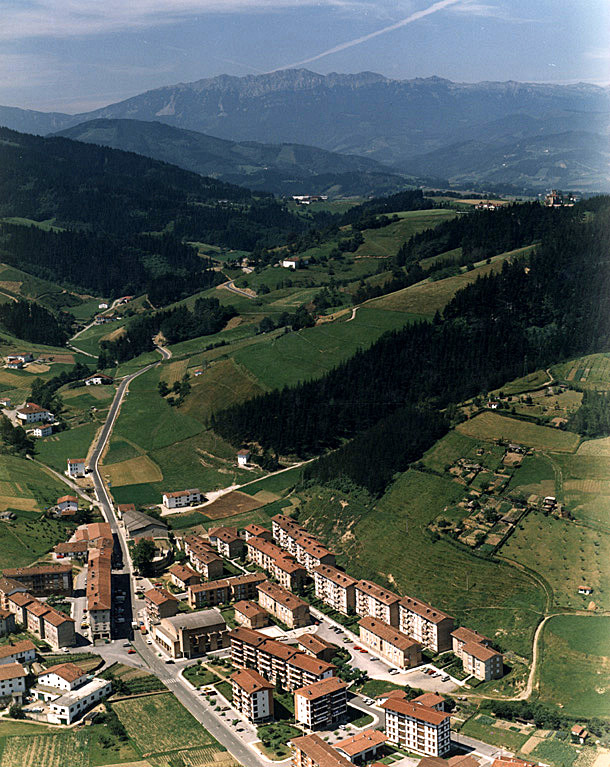 Lazkao, Spain: year 1993